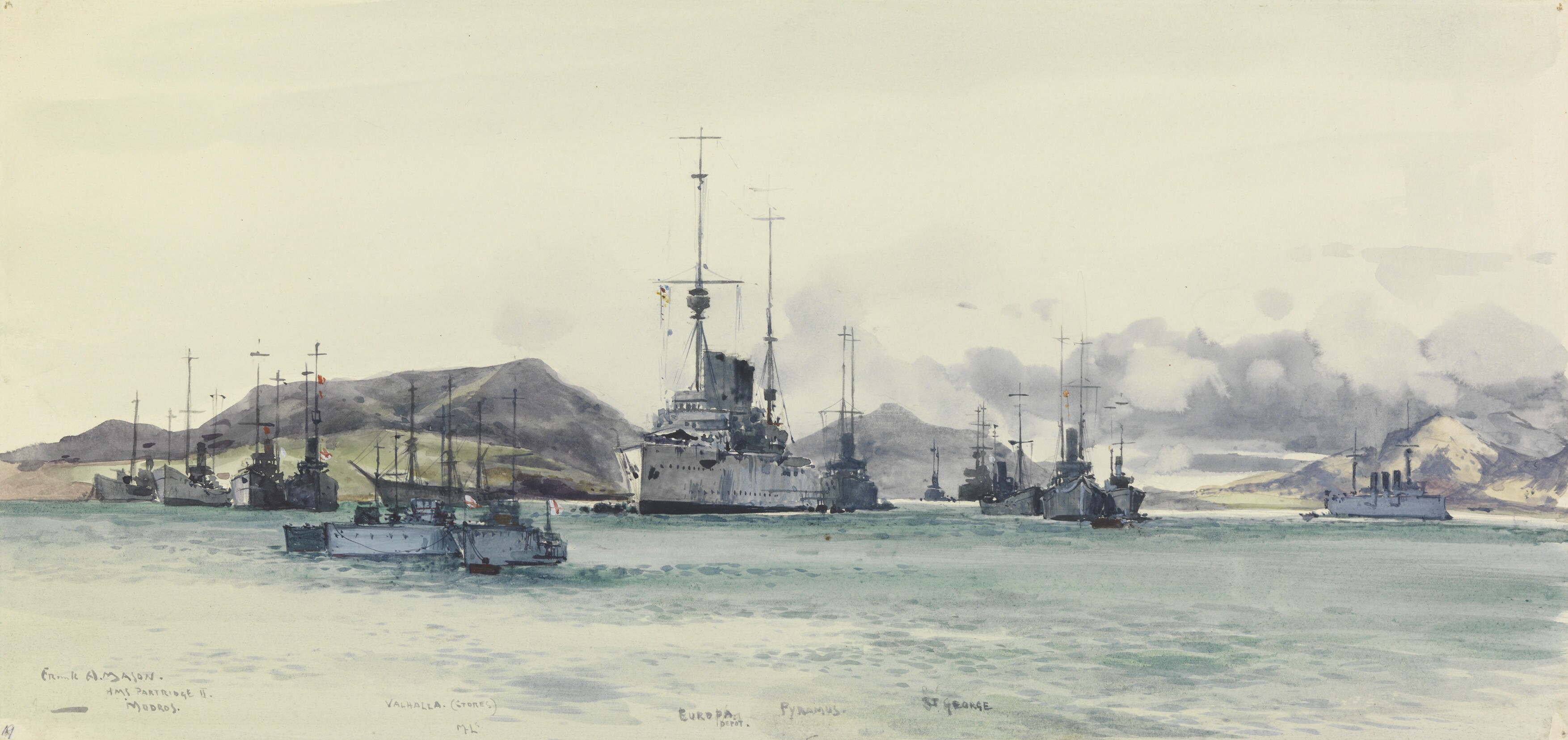 Mudros Harbour (south) - "HMS Europa" (depot and Flagship), "HMS Valhalla" (store Ship), "HMS St George", "HMS Pyramus", with mine-sweepers, trawlers and Mls image: Eastern Mediterranean Fleet: Aegean Squadron: Mudros Harbour (South). A group of many large and small naval ships at anchor before a rocky landscape: in the centre a large warship (HMS Europa), (Depot and Flagship), alongside her minesweeper HMS Pyramus; to the left the hulk of a sailing vessel (HMS Valhalla II, store ship); further left HMS Partridge II (Armed boarding steamer/Fleet messenger), to the right HMS St George; further to the far right an unidentified vessel, other small naval vessels. The ADMIRALTY "PINK LISTS", confirms all in possible attendance, 1917-1918.